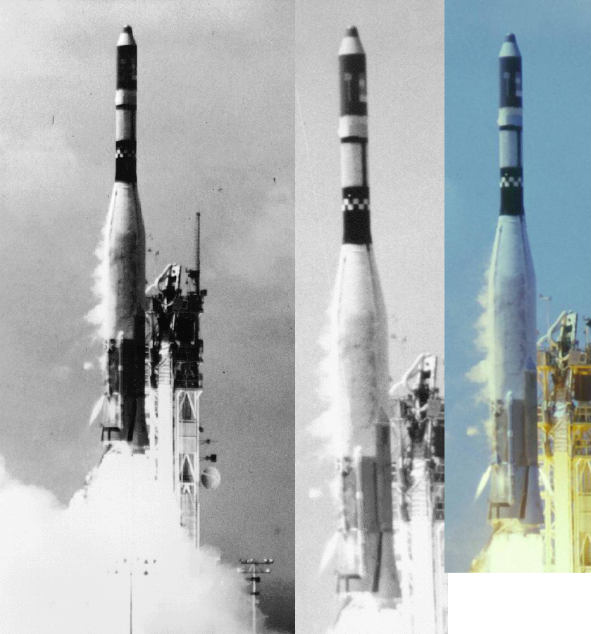 Launch of Atlas Agena D rocket with KH-7 07 satellite